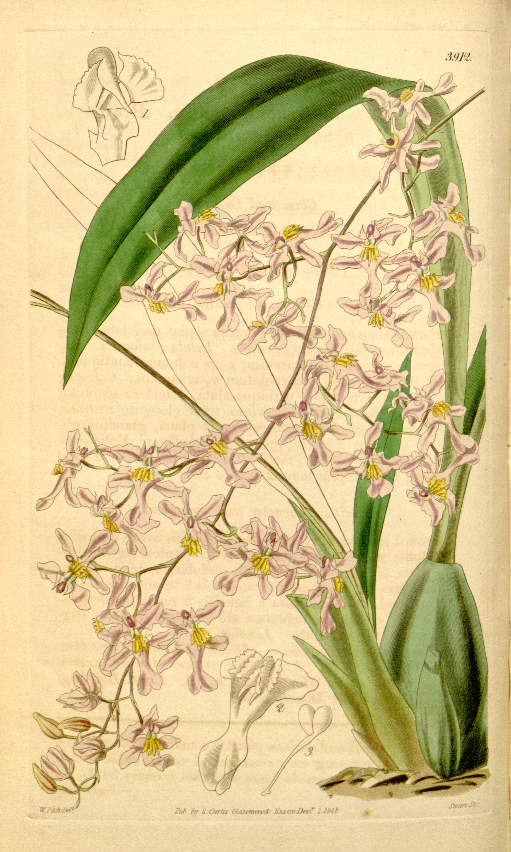 Illustration of Oncidium ornithorhynchum